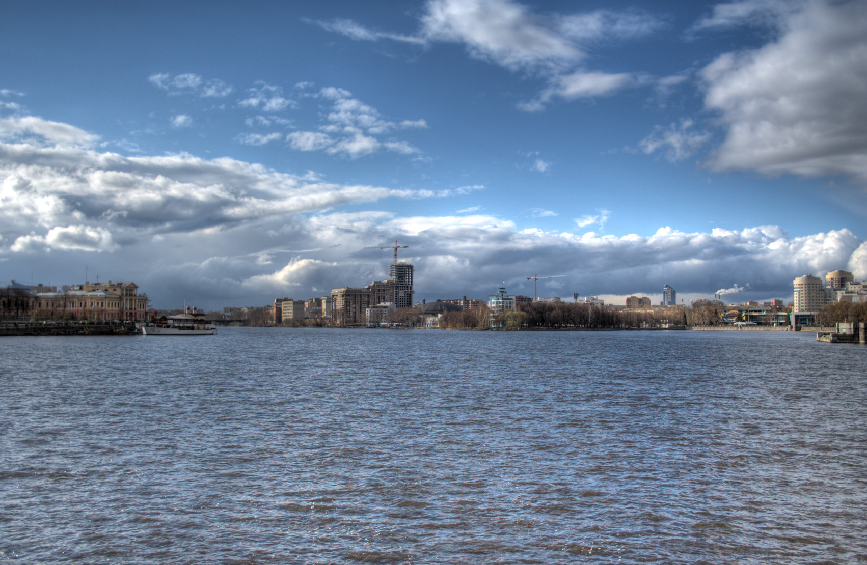 Yekaterinburg, city dam pond view.